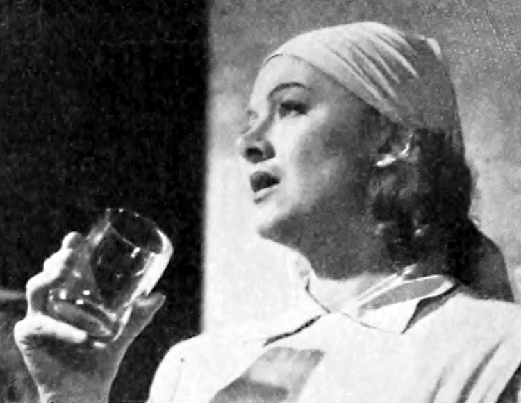 Photograph of Myrna Loy in The Rains Came